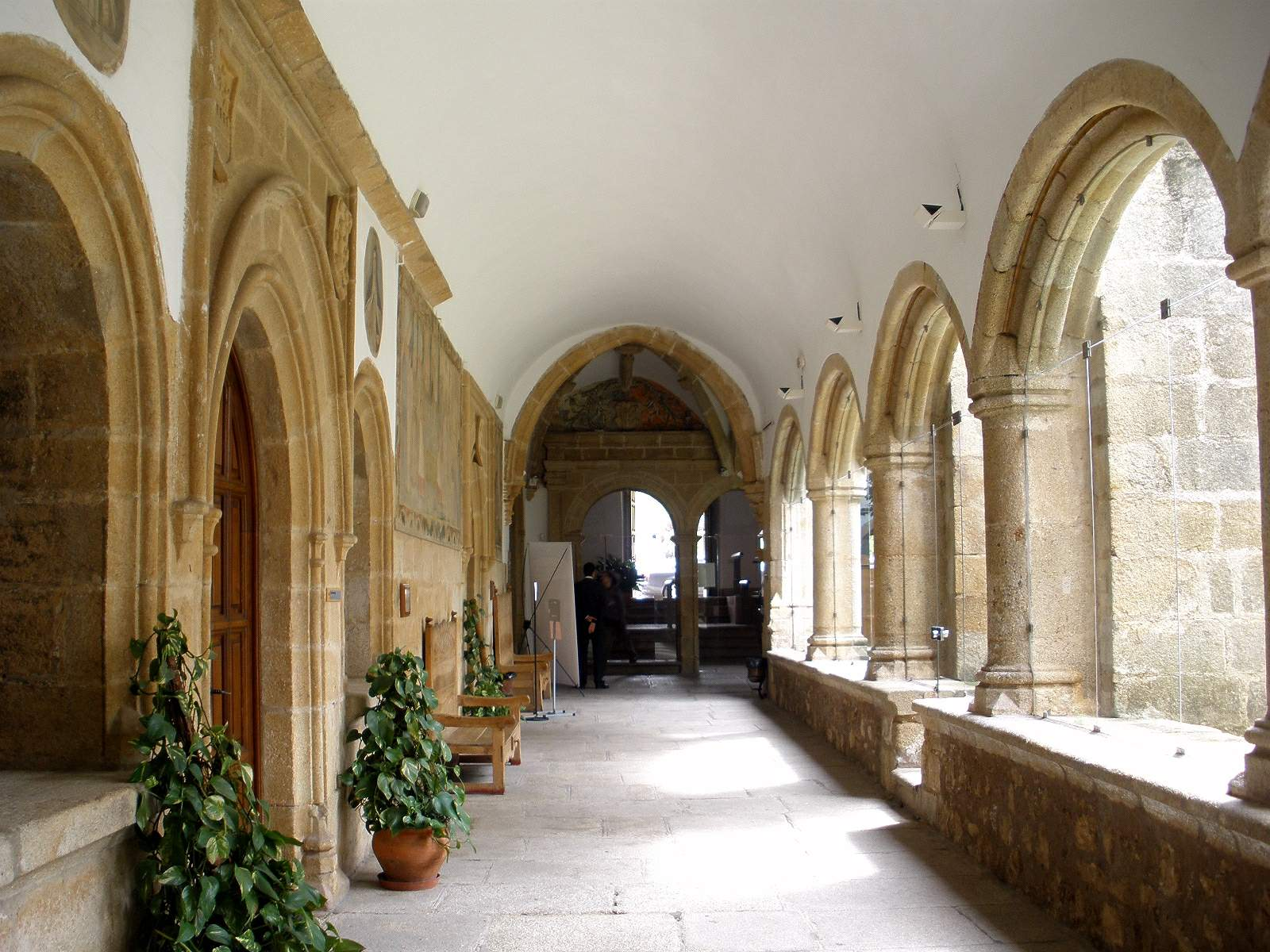 Cloisters of the Convent of San Francisco el Real (Cáceres)